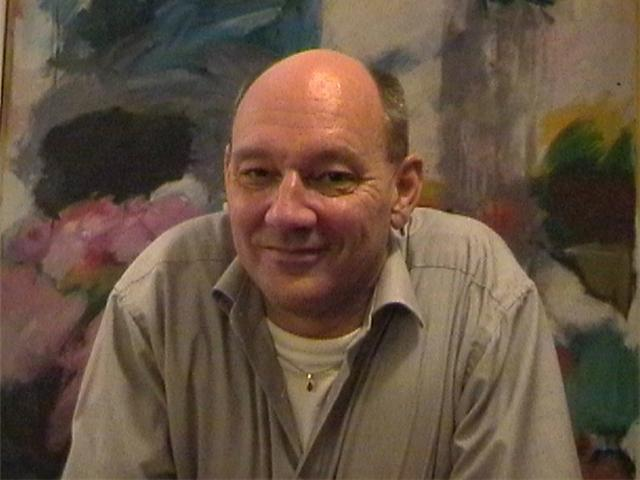 Dutch author Anton Brand